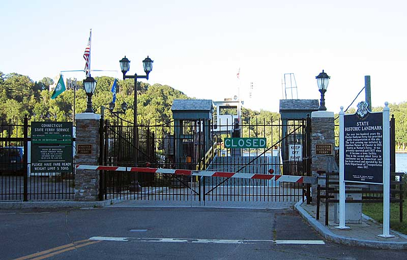 Chester - Hadlyme Ferry, Chester and Lyme, Connecticut after it closed for the day